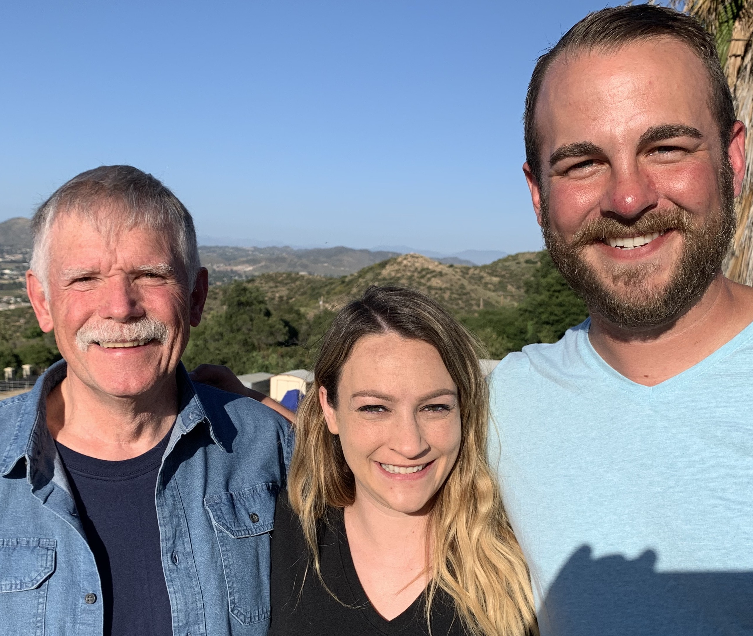 Balloonist Tim Cole Sr with son Tim Jr and daughter in law with child Tim Cole III celebrate Tim Jr's FAA Private LTA Pilot certification at Adventure Balloon school in Lake Elsinore, CA.